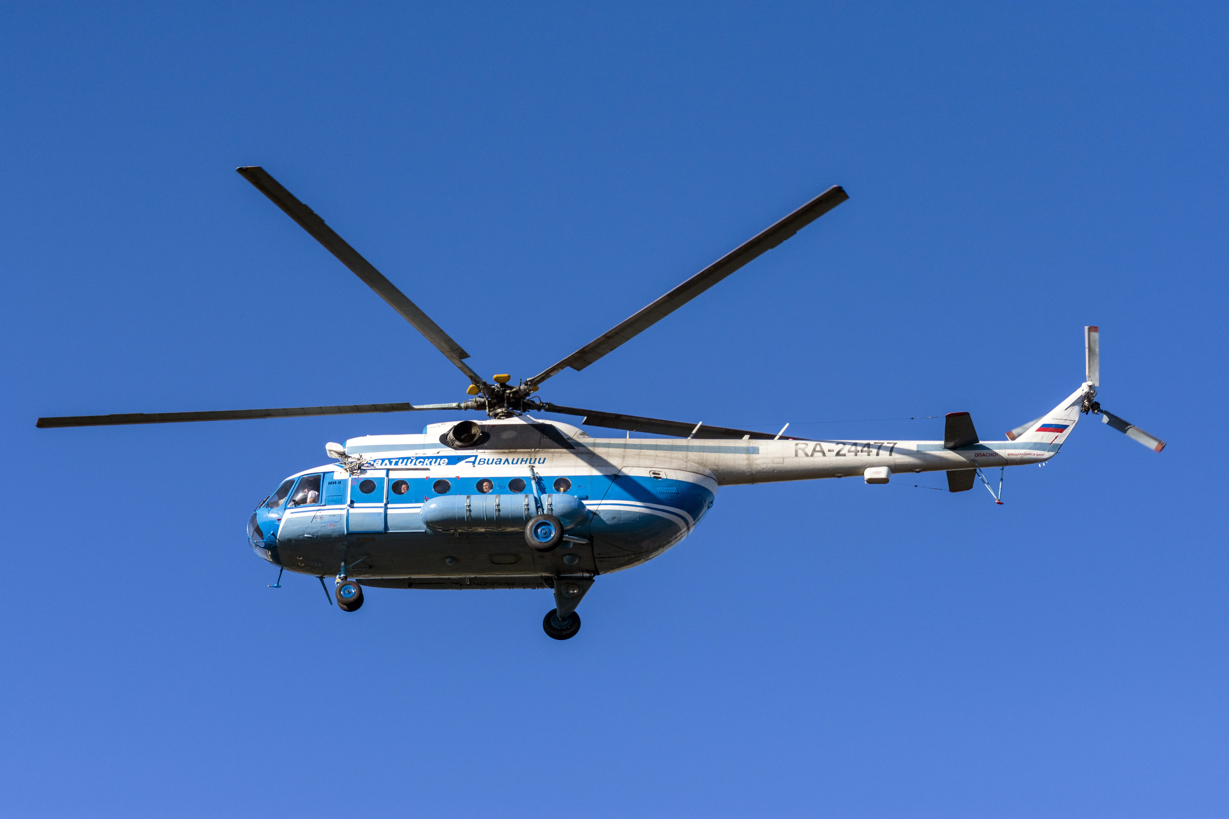 Mi-8 (RA-24477) Helicopter of Baltic Airlines in Saint Petersburg